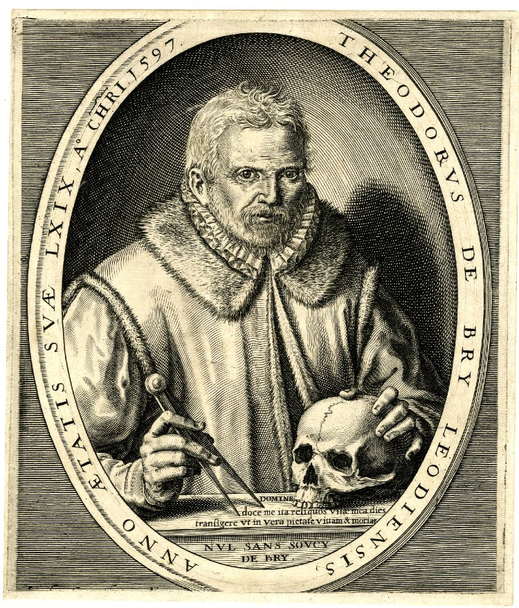 Self-Portrait of Theodor de Bry (aged 69), engraving, by Theodor de Bry. Published at Frankfurt am Main. de Bry holds a pair of compasses, his hand resting on a skull. 185 mm x 160 mm. Courtesy of the British Museum, London.